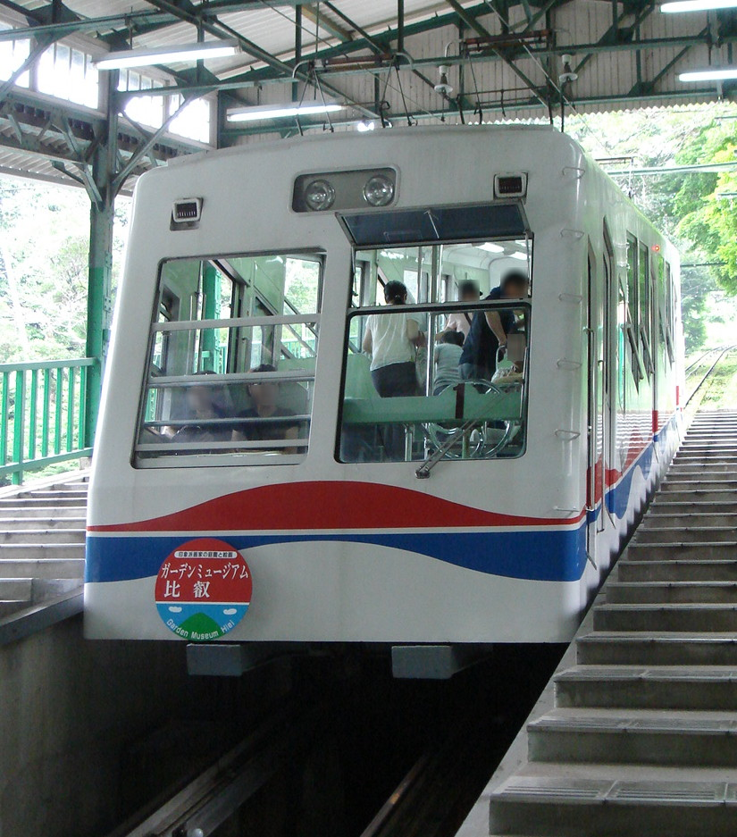 Keifuku Eizan Cable Car funicular. Photograph taken by ↑ＰＯＮ at Cable Hase station